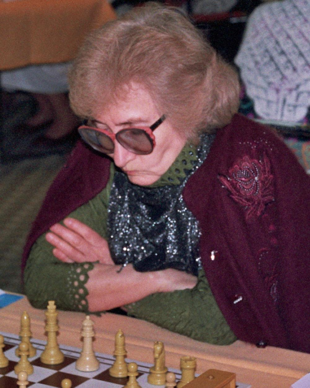 Valentina Kozlovskaya, Senior Chess World Championship 1996 at Bad Liebenzell, Photographer Gerhard Hund.